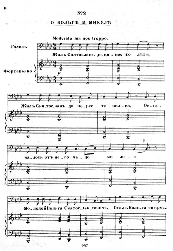 Rimsky-Korsakov 02a O Volge i Mikule